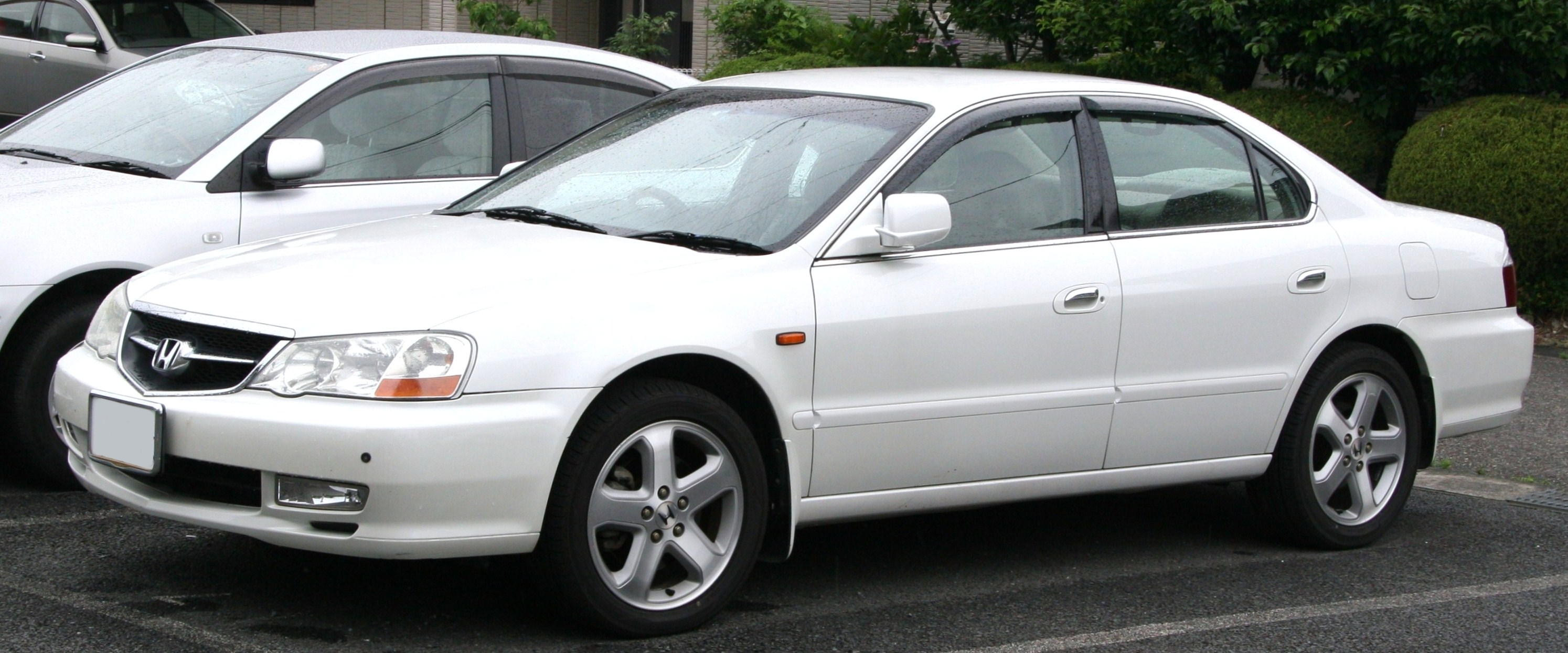 Honda Inspire